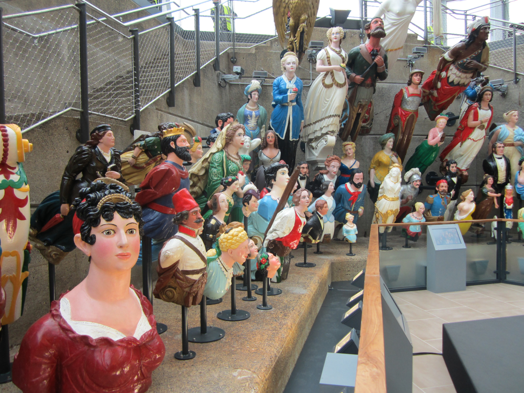 Collection of figureheads held at the Cutty Sark museum